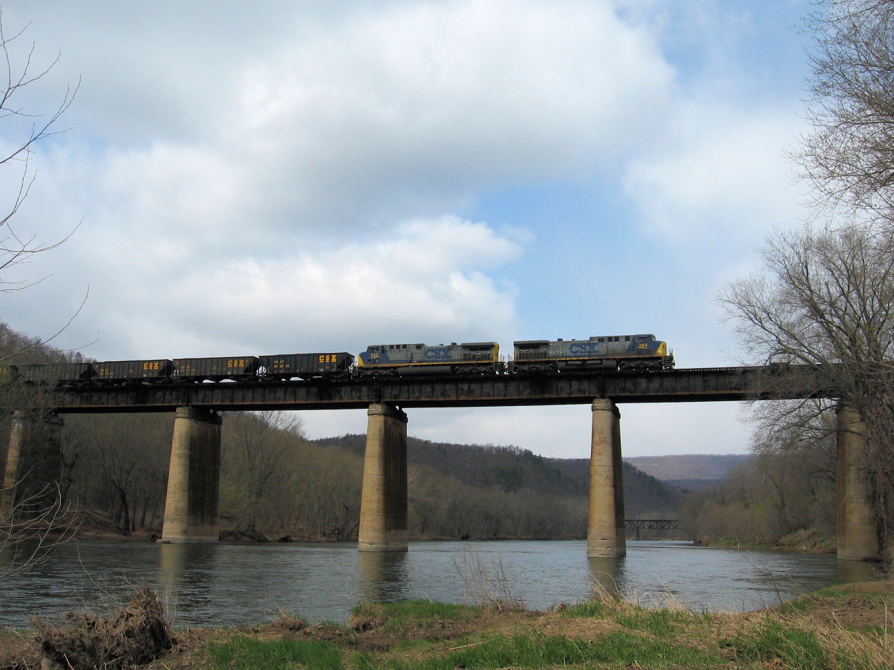 View of a CSX train crossing the Magnolia Bridge over the Potomac River, near Magnolia, West Virginia. The bridge was built by the Baltimore and Ohio Railroad in 1914 as part of the Magnolia Cutoff line.